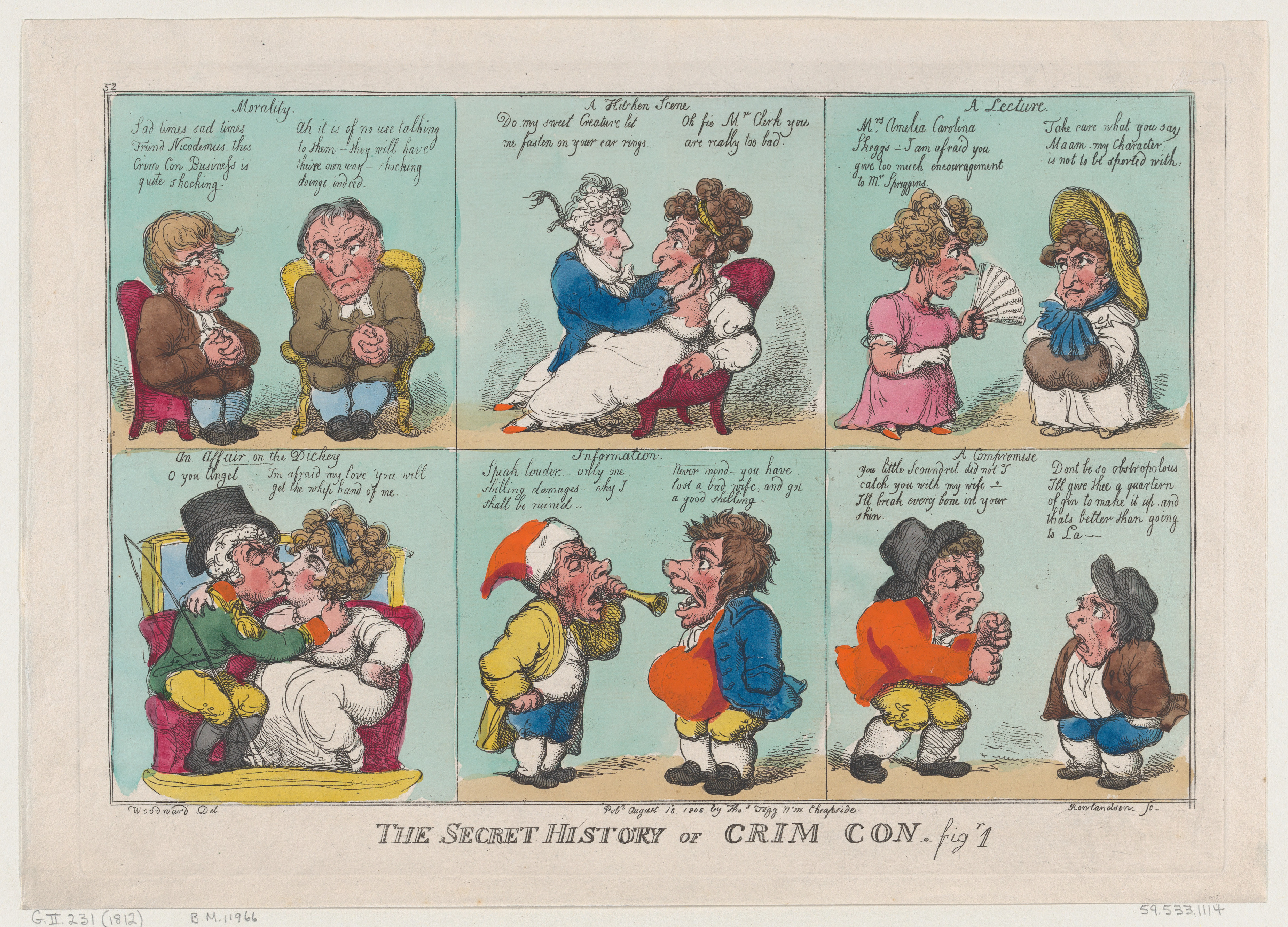 Print; Prints